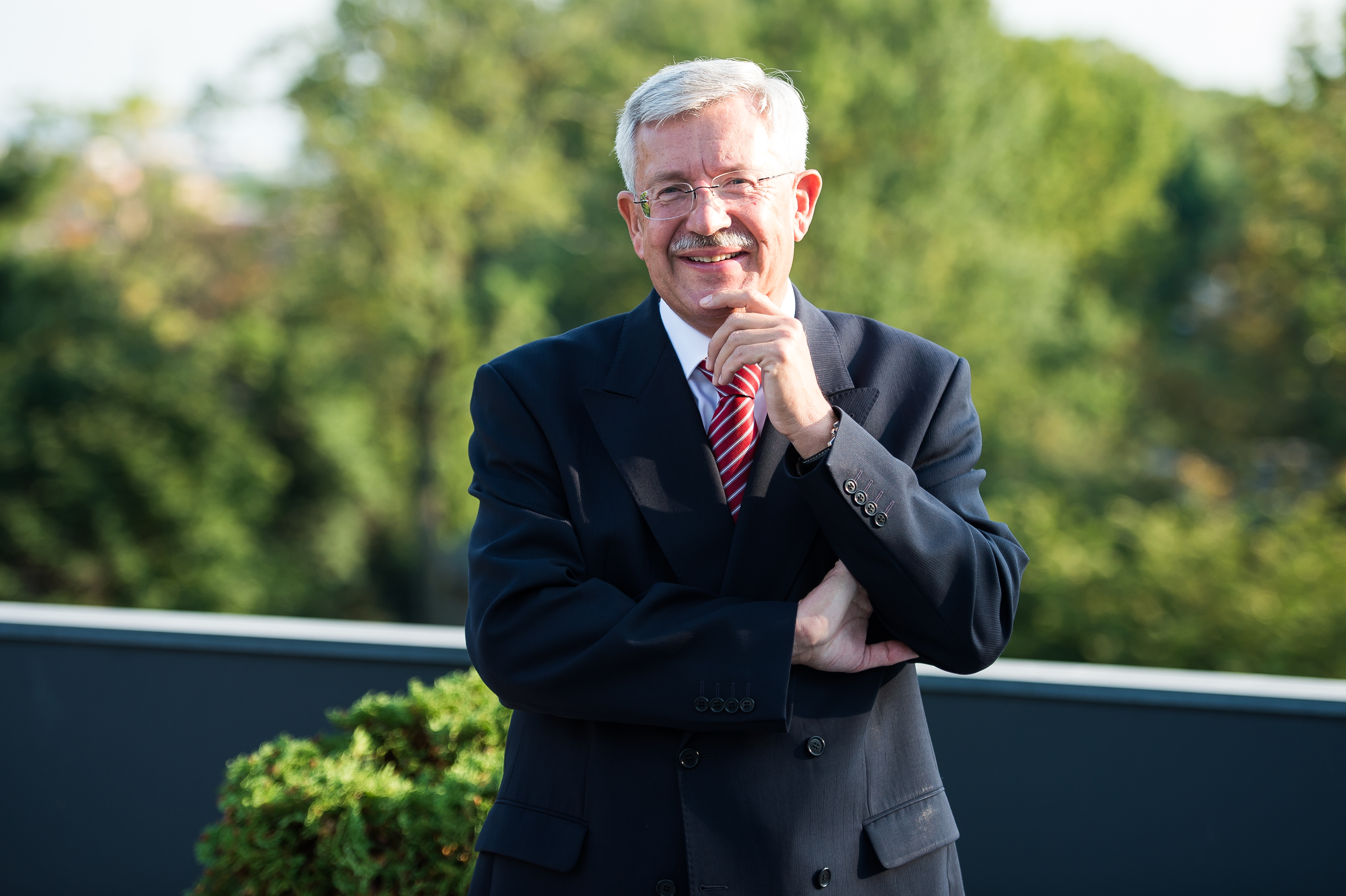 Ambassador Martin Dahinden is the Swiss ambassador to the United States of America.